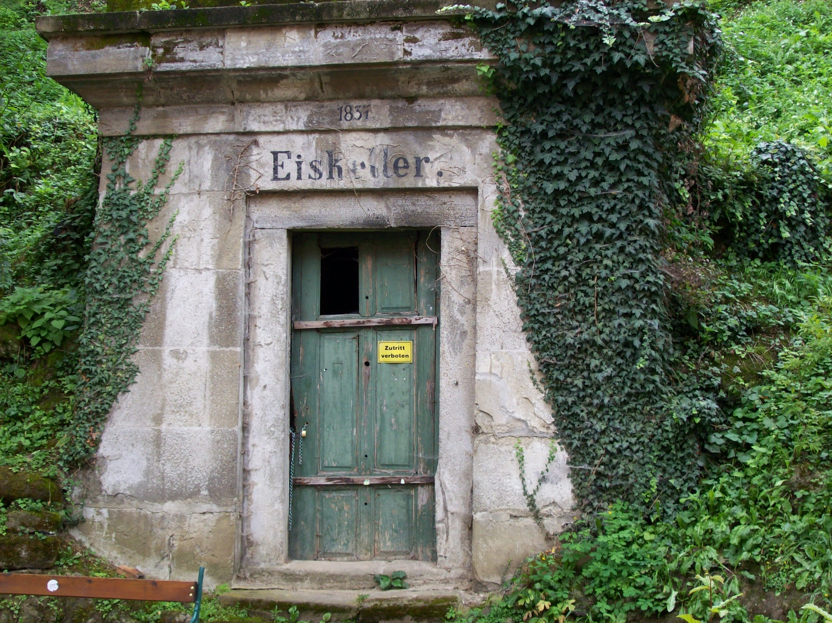 Icehouse from 1837 situated in Bad Gleichenberg